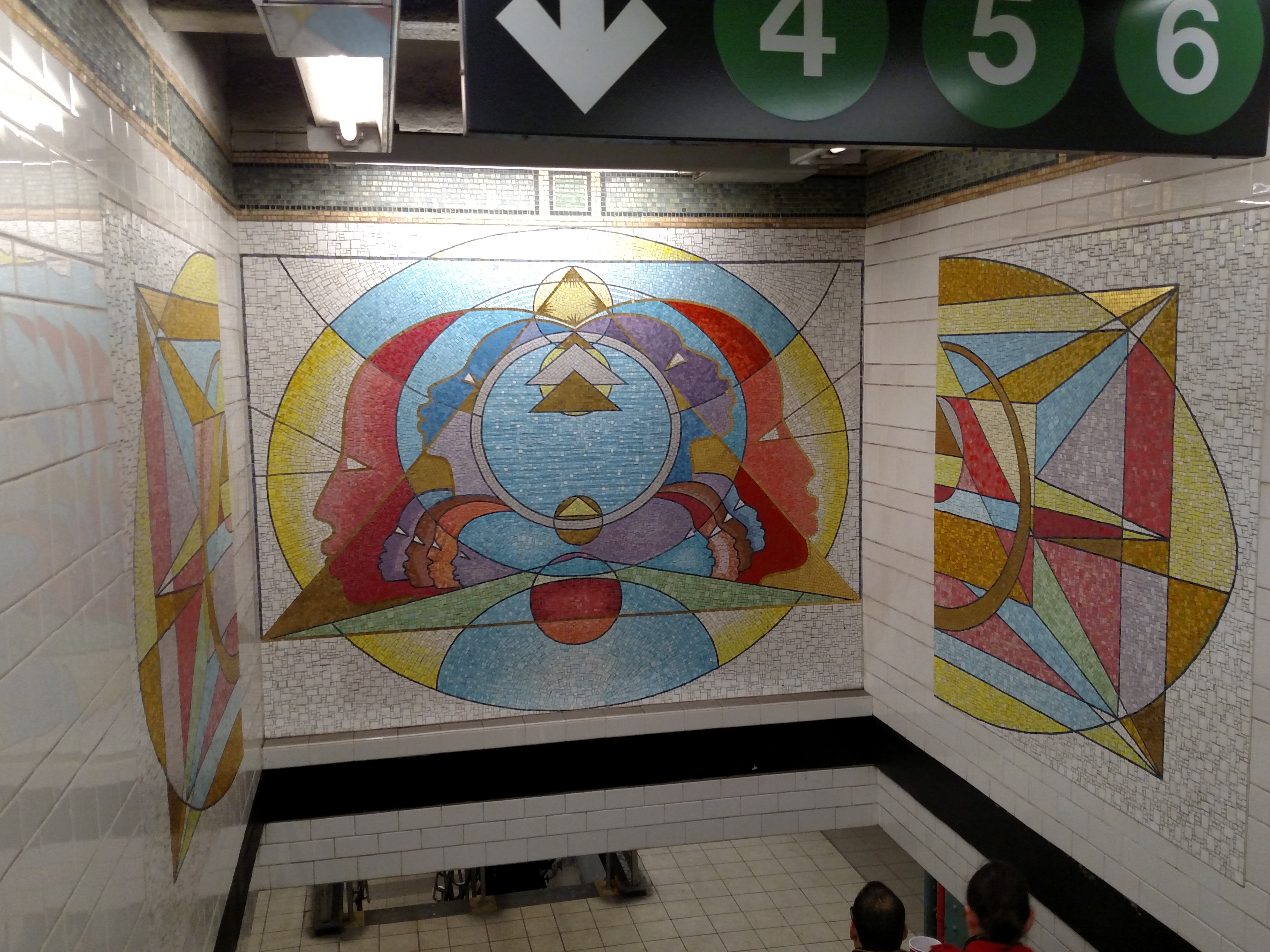 125 Street